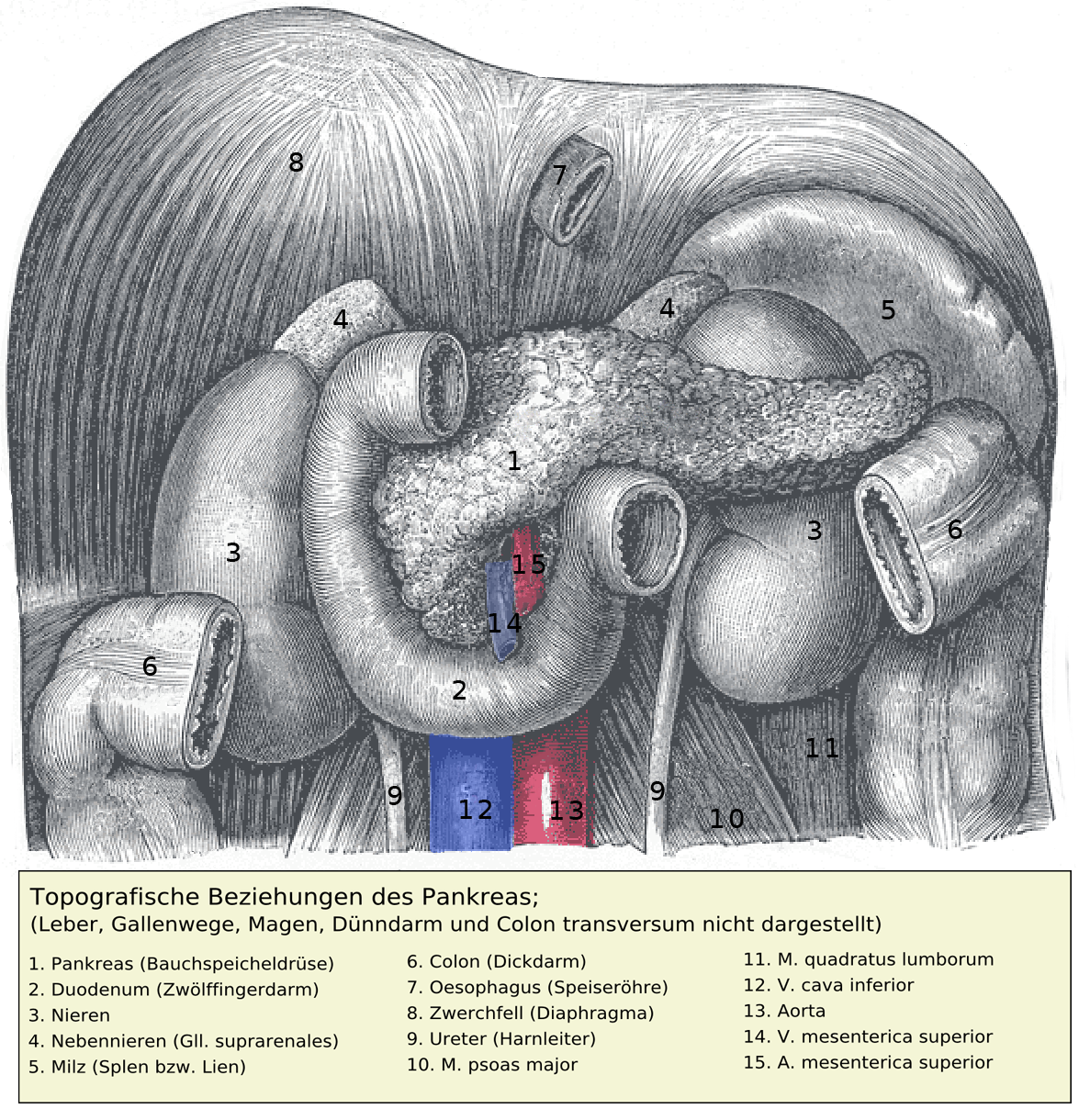 vesica fellea